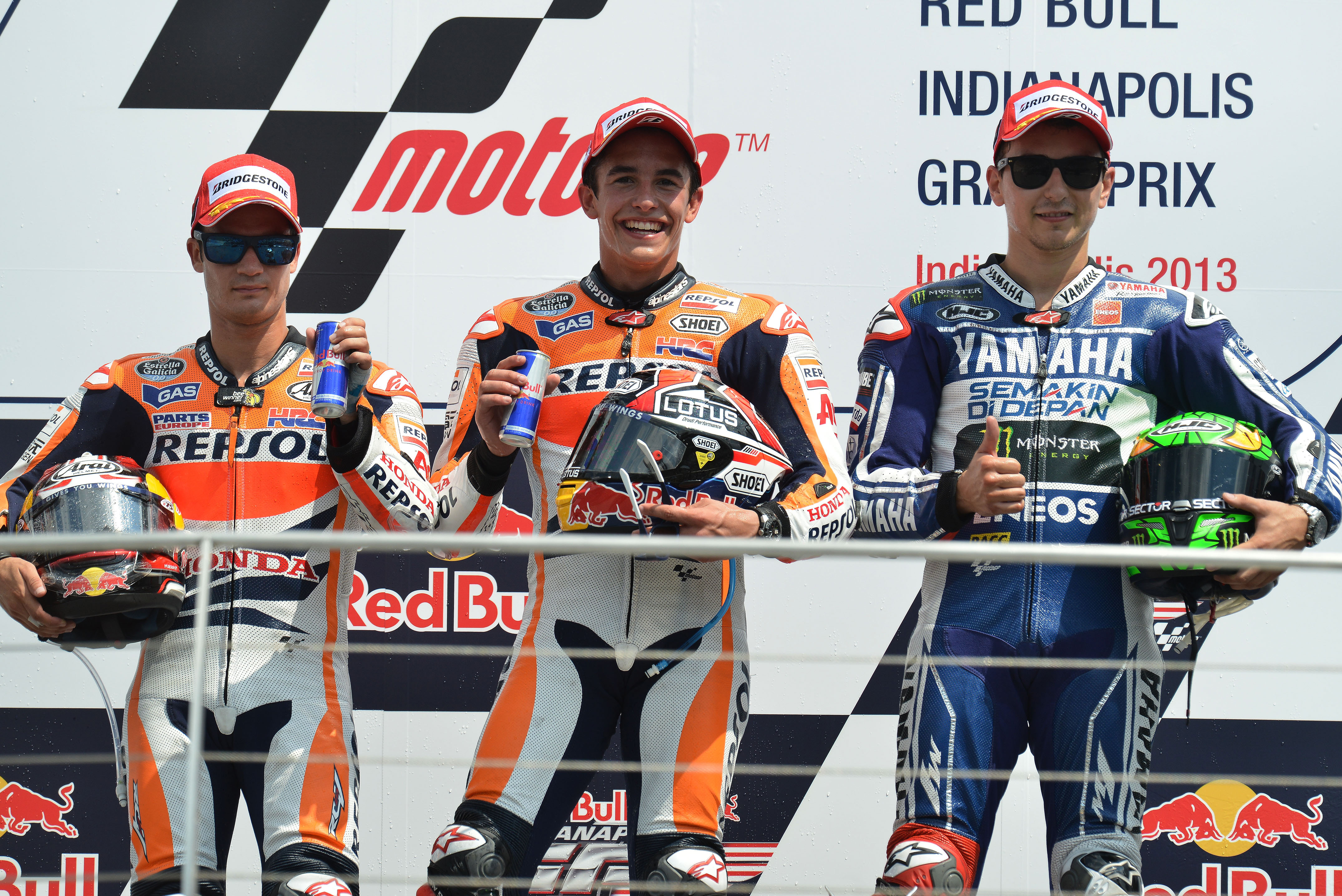 Dani Pedrosa, Marc Márquez and Jorge Lorenzo, celebrating on the podium after finishing in second, first and third place at the 2013 Indianapolis Grand Prix.